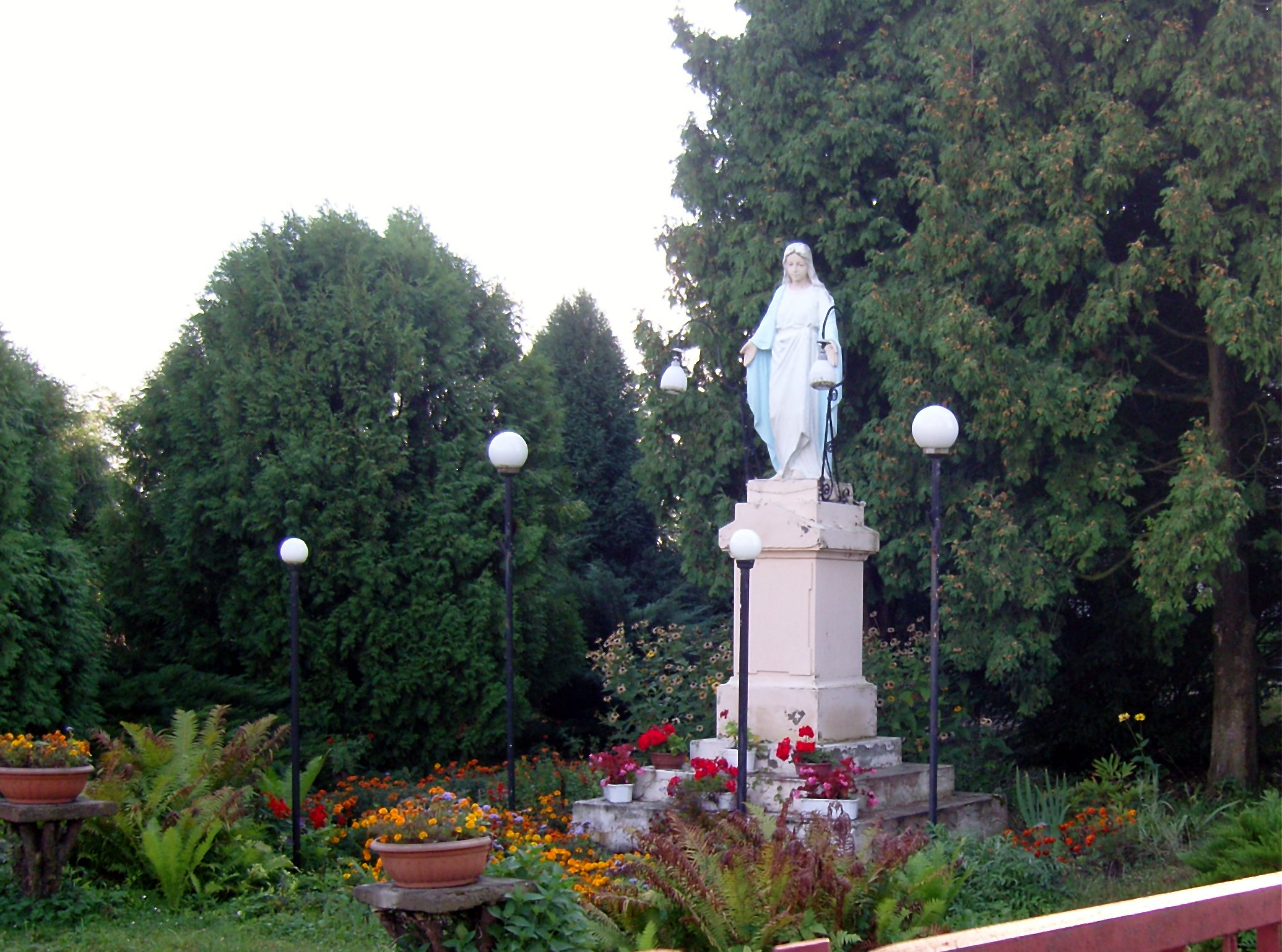 Gorzków - churchgarden